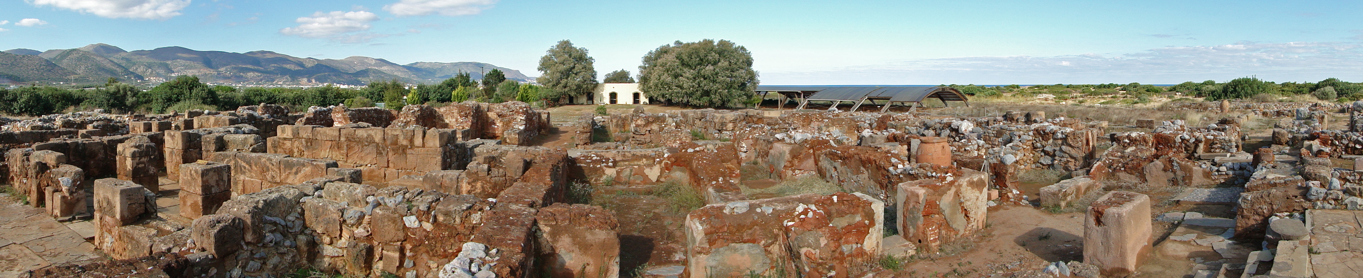 West part of the Palace of Malia seen from the Grand Staircase, Crete, Greece